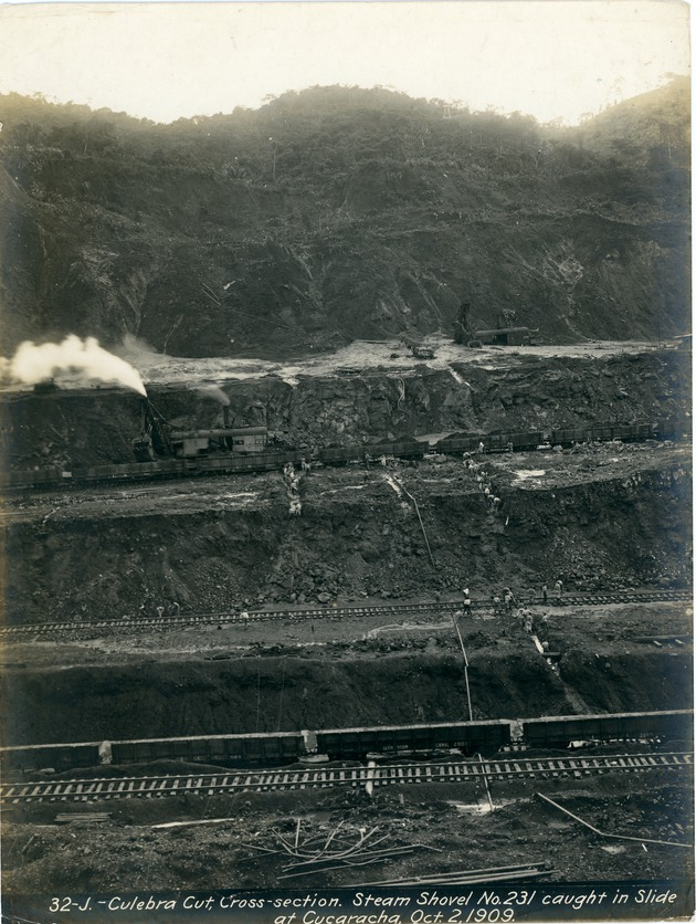 Culebra Cut, Cross-section. Steam Shovel No. 231 caught in Slide at Cucaracha.